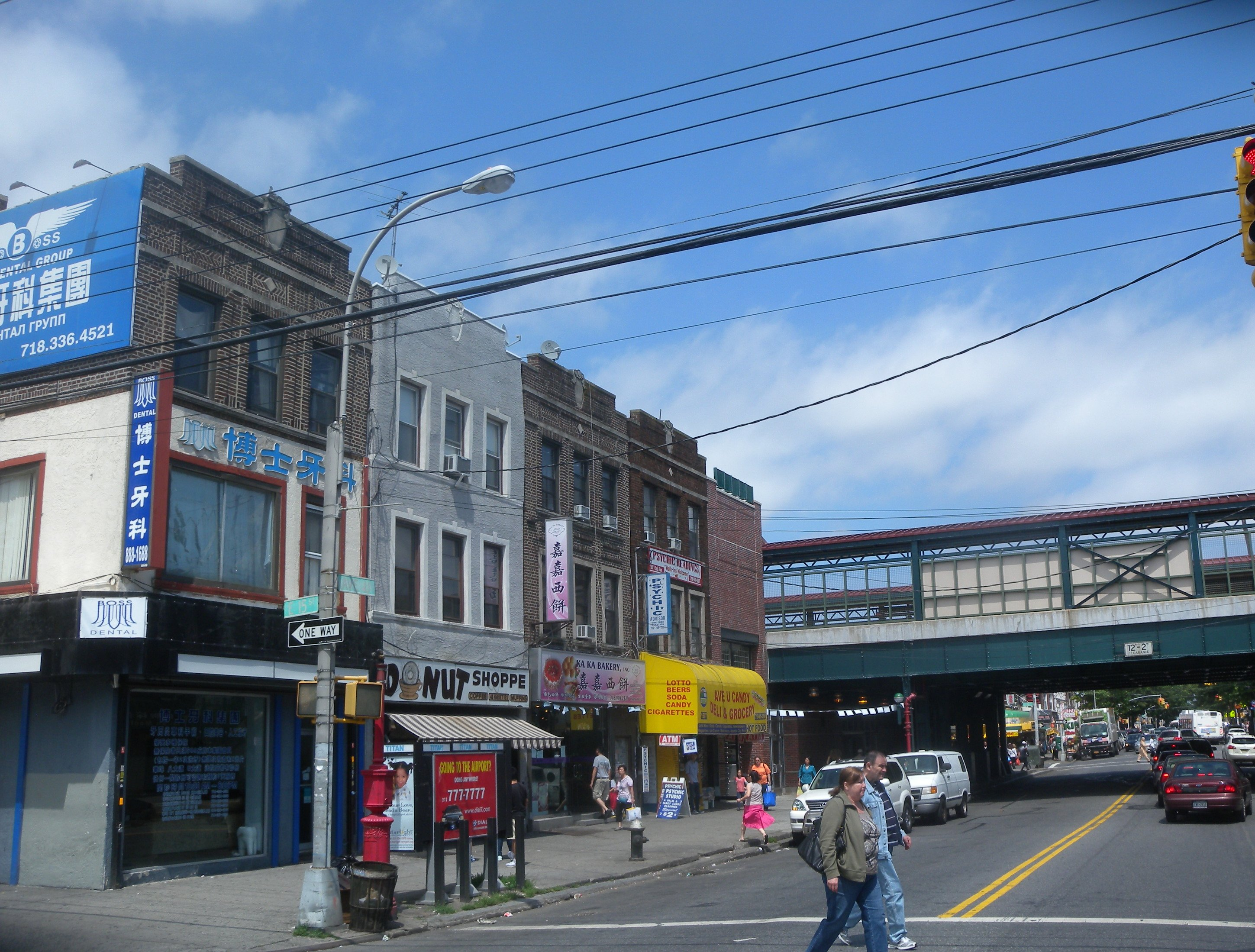 Looking northeast across Avenue U and E15th St on a mostly sunny day.